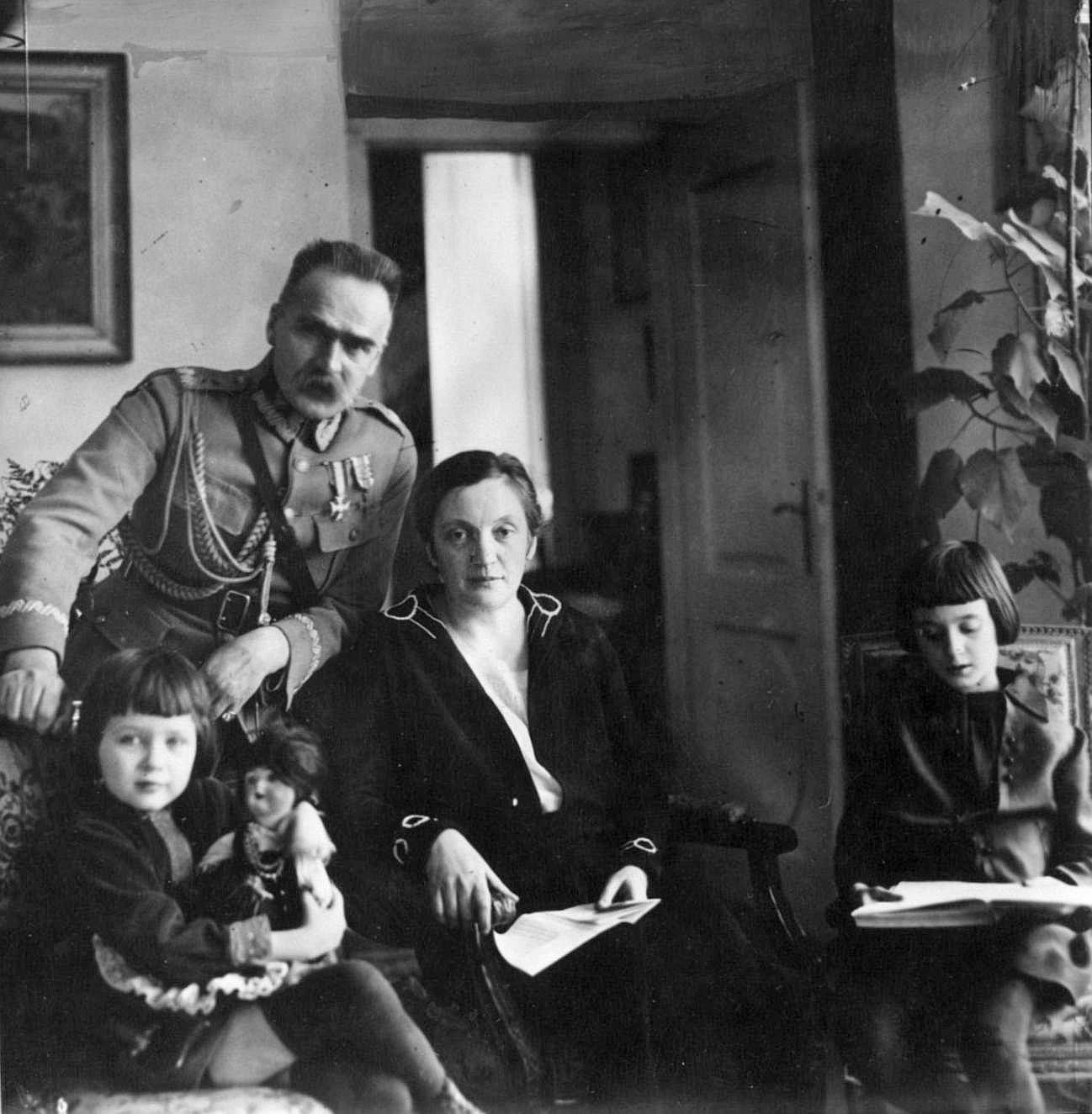 Aleksandra Piłsudska, second wife of Marshall Józef Piłsudski, with husband and daughters: Wanda and Jagoda (in one of the rooms at villa Milusin in Sulejówek town near Warsaw, Poland)